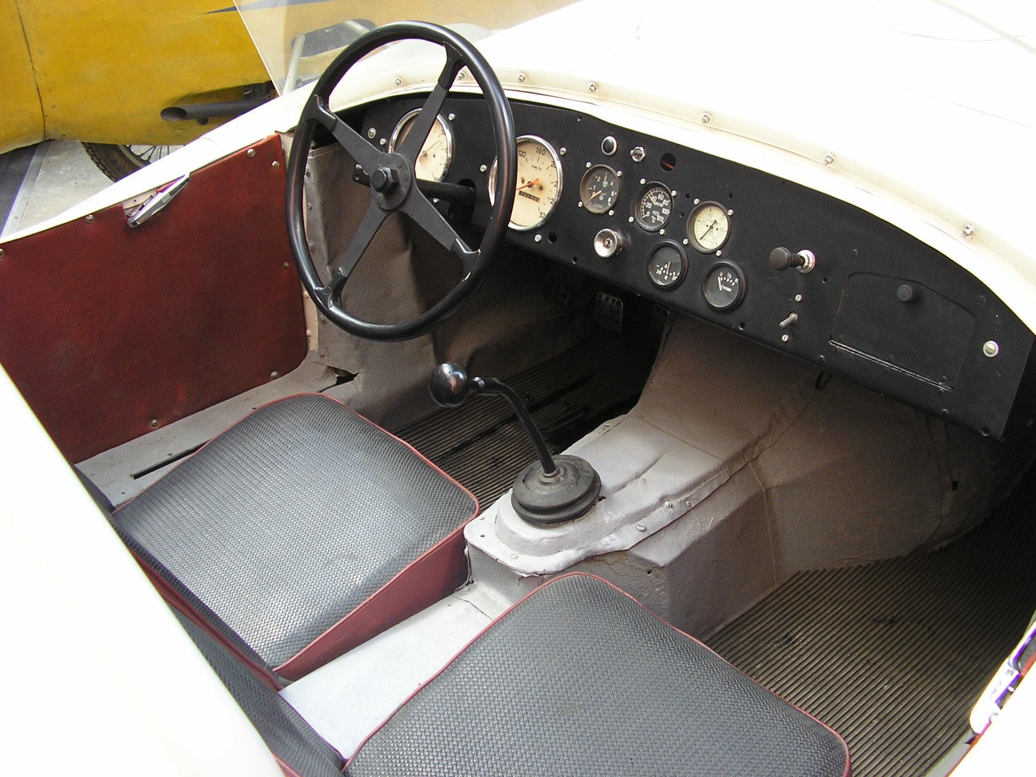 A 1962 ZIL-112S. The 112S used a lot of first for Soviet Union cars such as controlled slip differential, disc brakes, radial-ply tires et.c The car has been tuned up to 300 hp from the standard 230 hp. It is powered by a 5980 cc inline-8 giving a top speed of 260 km/h. Between 1963 to 1965 the car set five all-Union records in the racetracks.